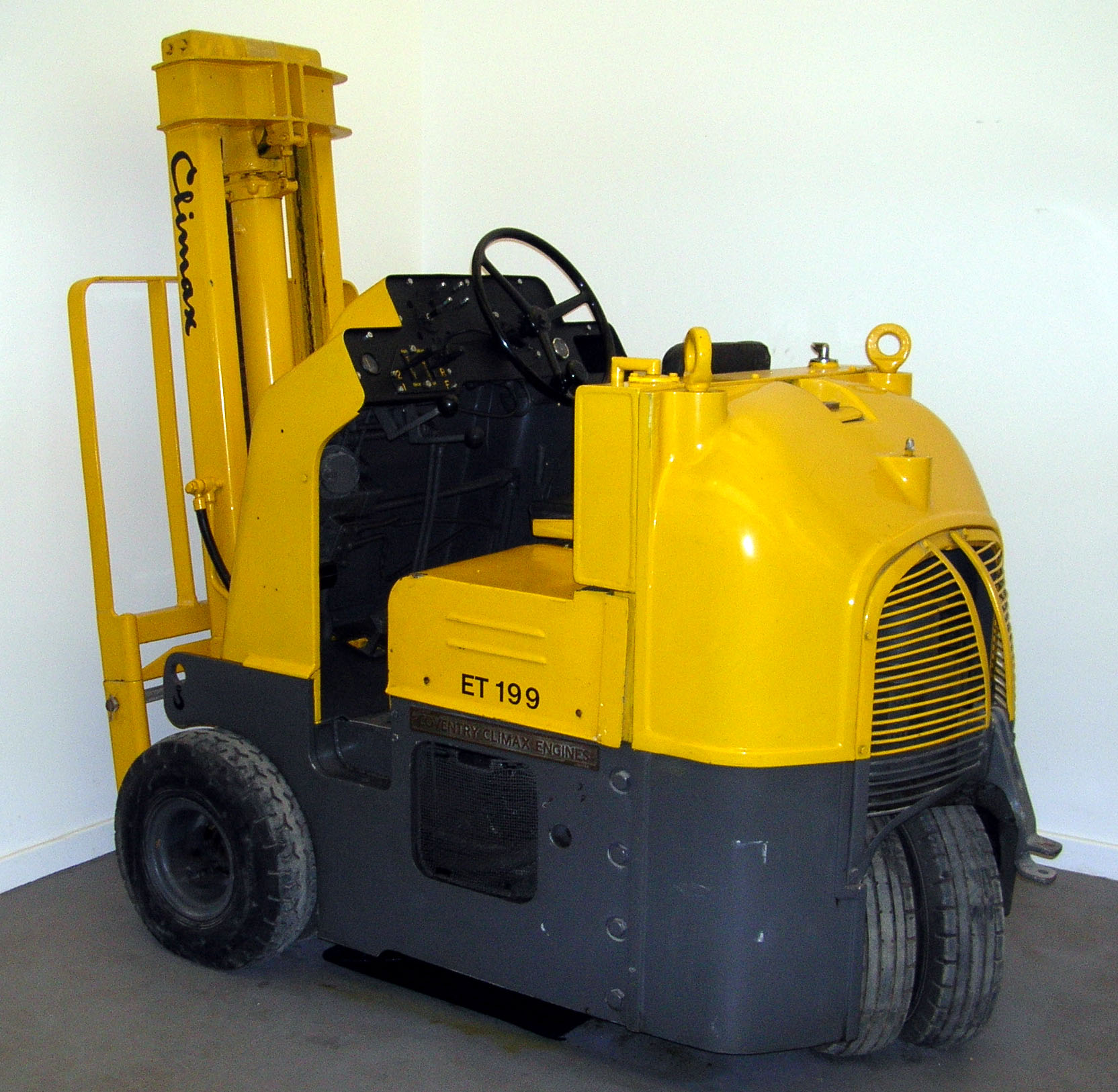 Coventry Climax ET 199 fork lift truck, built in 1949. Photographed in Coventry Transport Museum.